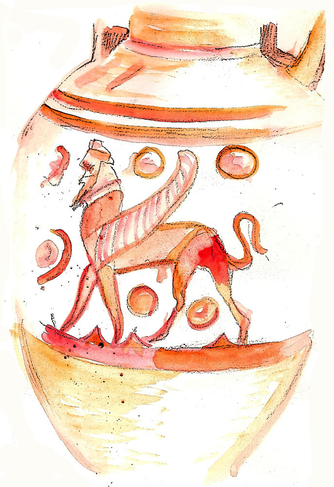 My sketch of Sfinge barbuta